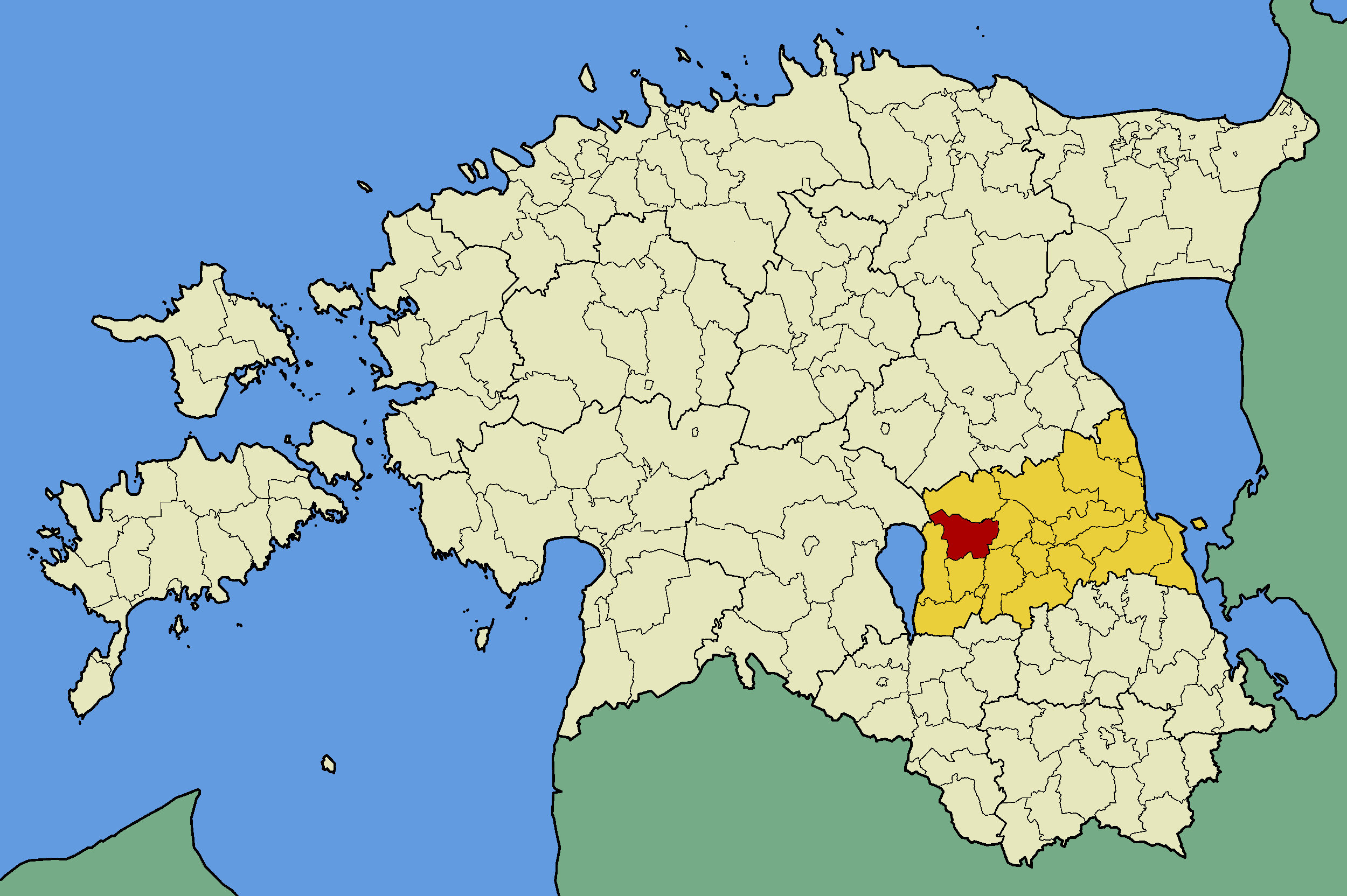 Map of Estonia with borders of municipalities (parishes). Tartu county and Puhja municipality emphasized.